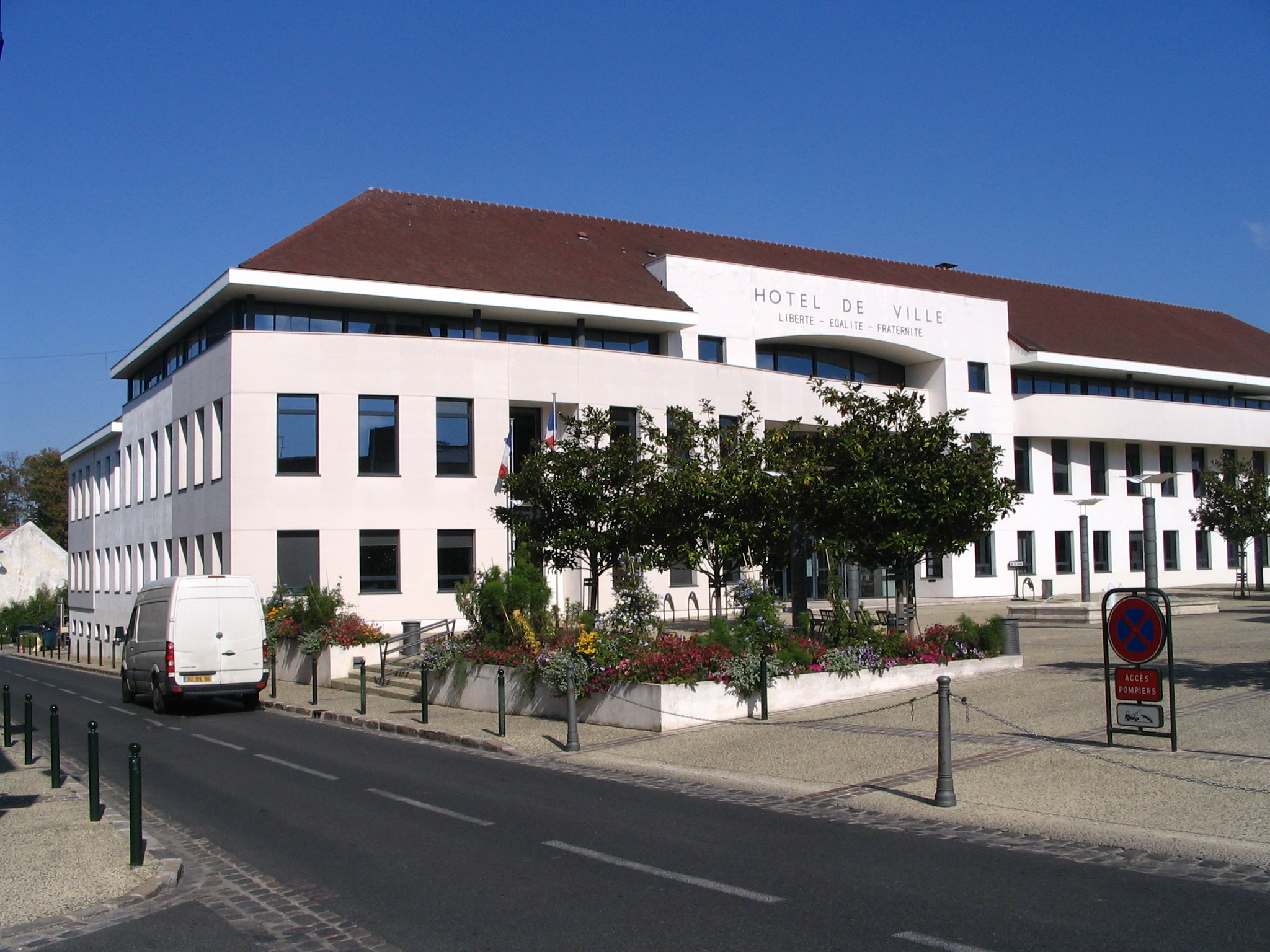 The town hall of Champs-sur-Marne, Seine-et-Marne, France.